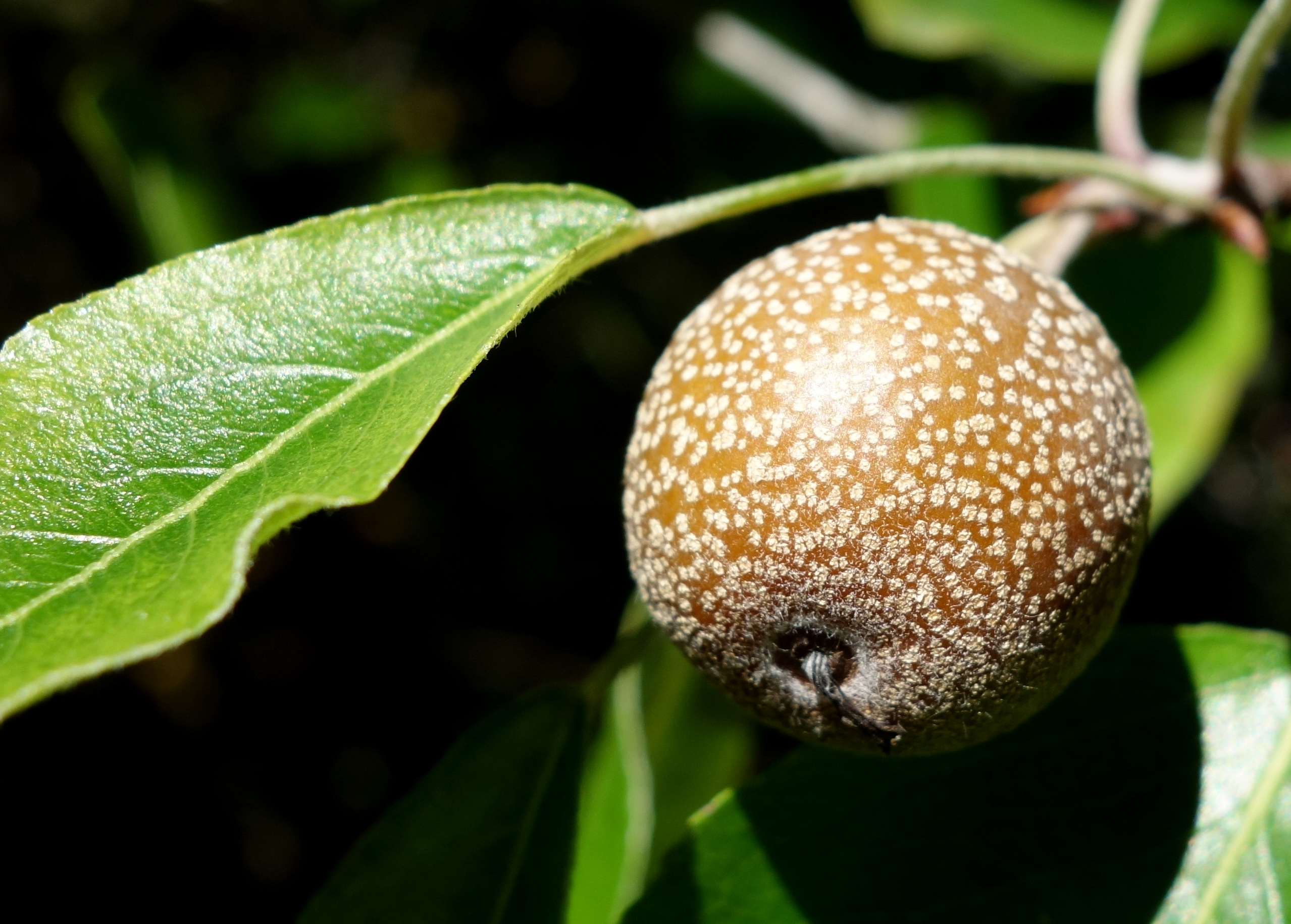 Botanical specimen in Quarryhill Botanical Garden, Glen Ellen, California, USA.